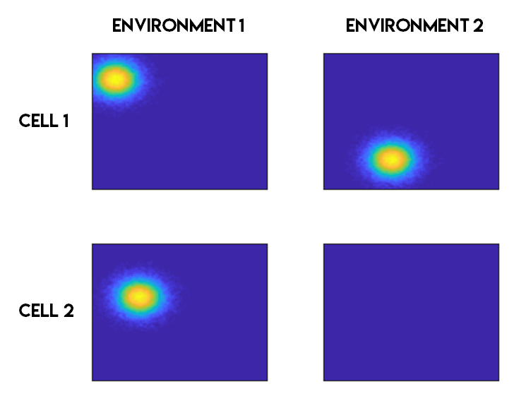 These are modelled place cells to illustrate remapping. Cell 1 changes the location of its place field and cell 2 losing its place field alltogether.